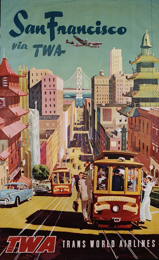 Poster from the Don Thomas Collection. Mr. Thomas was a collector of aircraft memorabilia who donated several posters to the San Diego Air and Space Museum. Repository: San Diego Air and Space Museum Archive